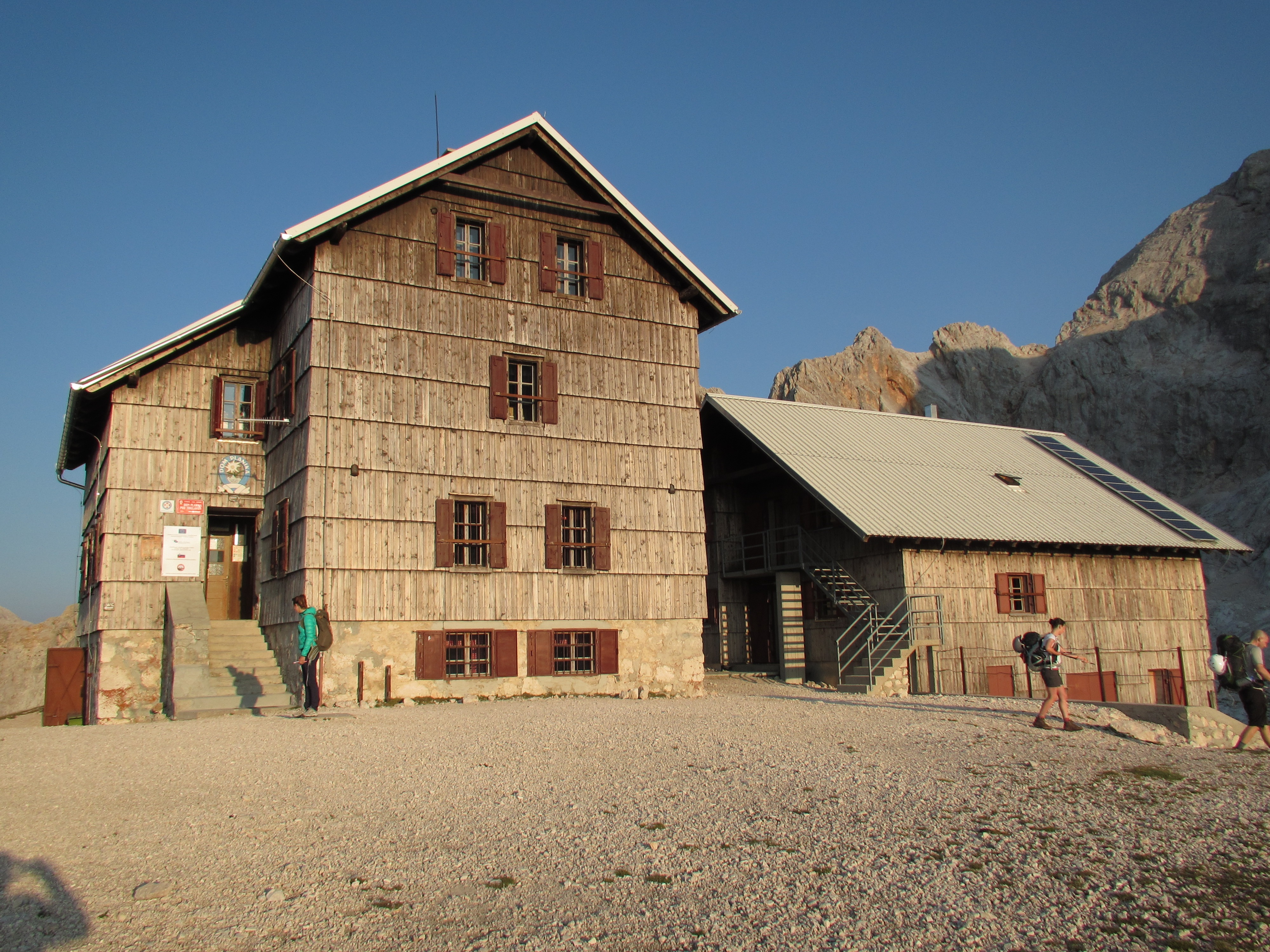 Planika Lodge at Triglav